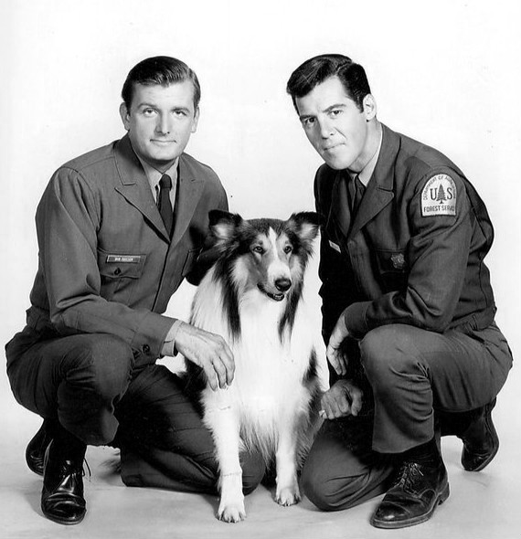 Publicity photo of Jack De Mave (left) and Jed Allan with Lassie from the television program Lassie.